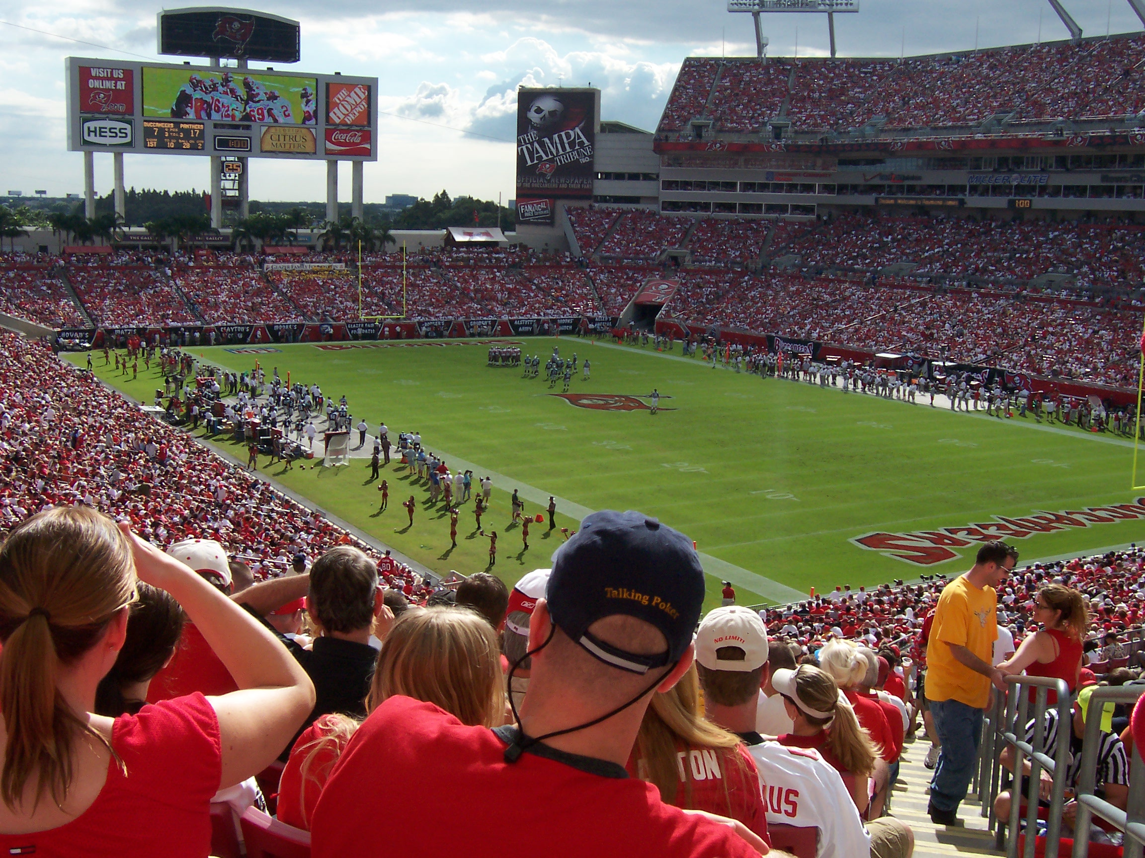 Photo taken at Raymond James Stadium of the game between the Tampa Bay Buccaneer and Carolina Panthers on Novermber 6, 2005. It is taken from the north east corner of the stadium. This photo was taken by myself personally. 17:19, 21 August 2007 . . Doctorindy . . 2304×1728 (1.21 MB)